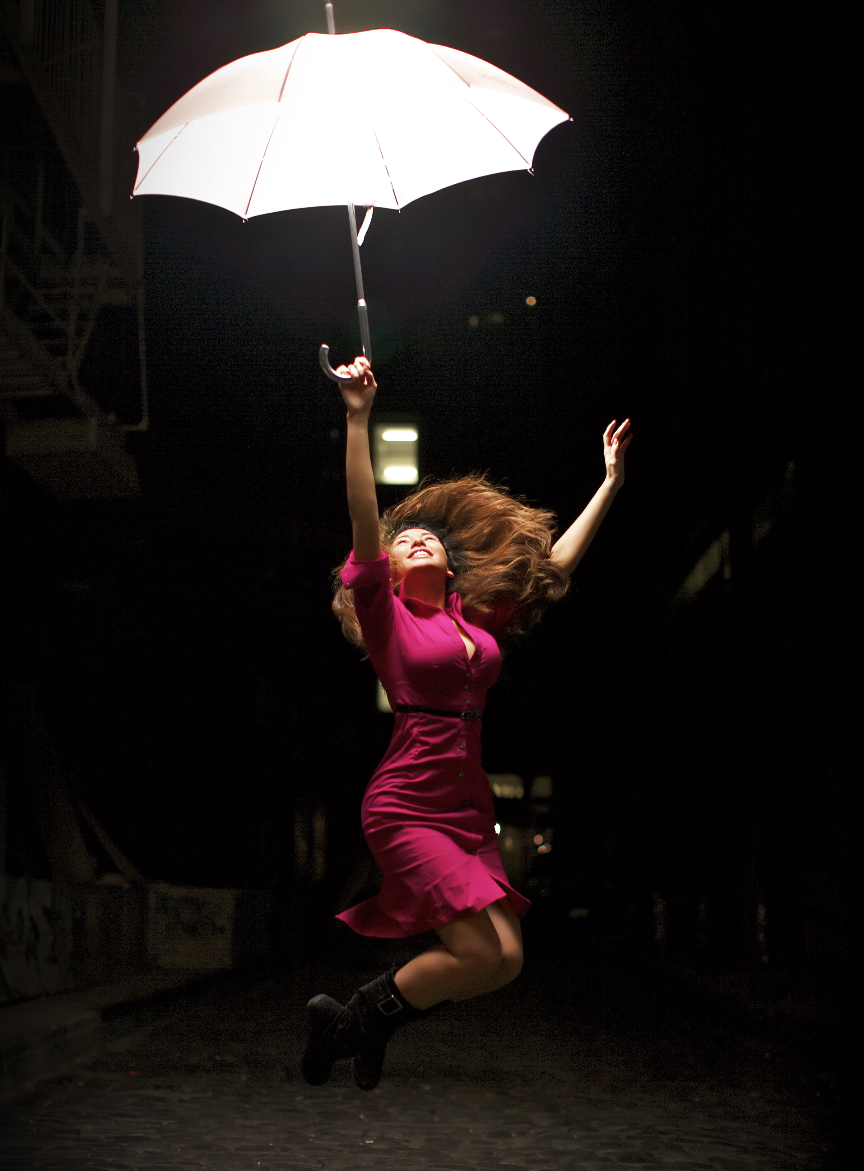 Midnight photoshoots are a thing of the norm with Jackie and I. But this was 12 o'clock California time while we were in New York City (3:00 am). A cop noticed us jumping around in the alley... then... drove off. nothin to see here, officer :) Strobist: 580EX + PocketWizard